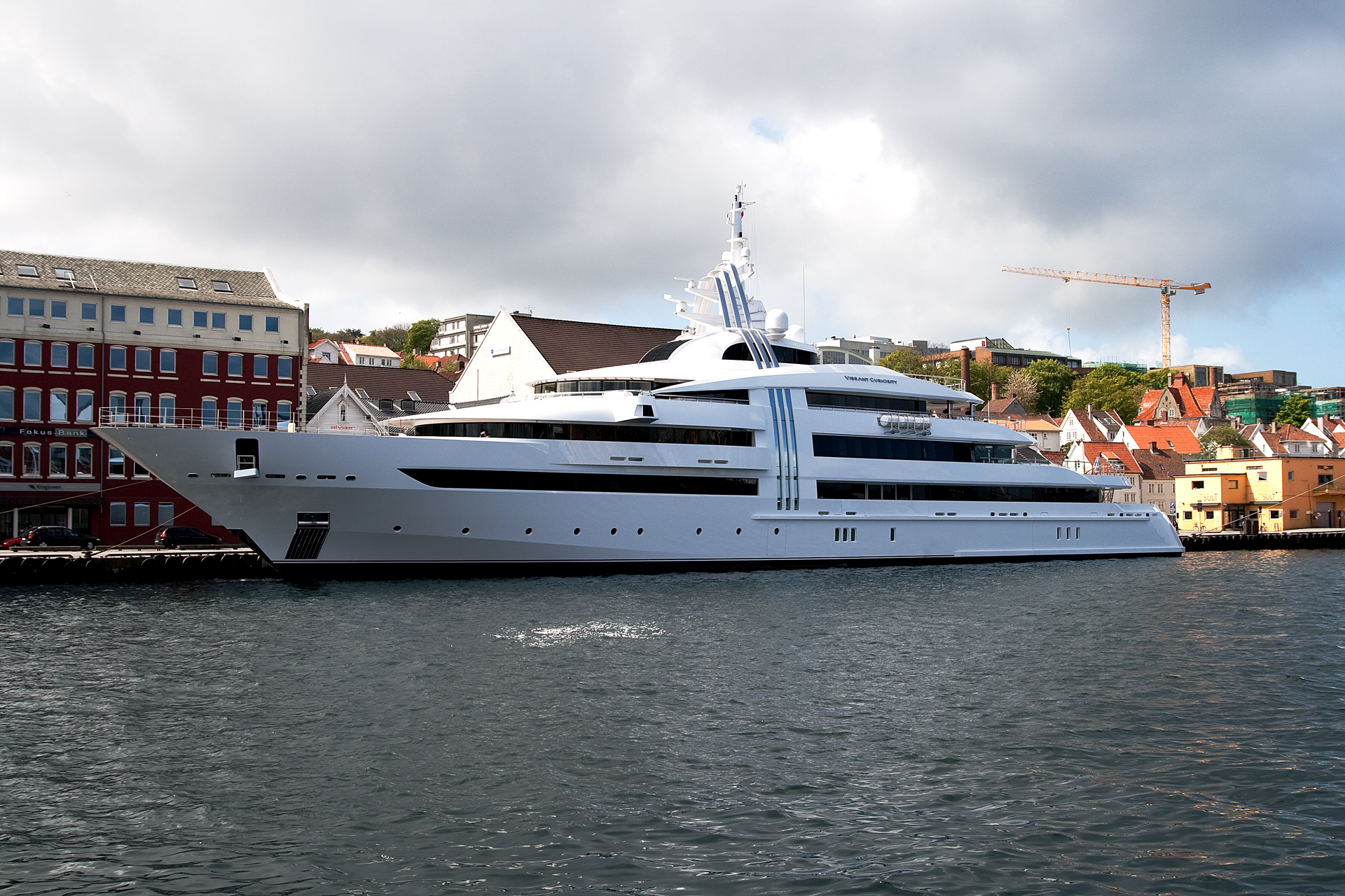 Picture of "Vibrant Curiosity", a yacht owned by German billionaire Reinhold Würth.